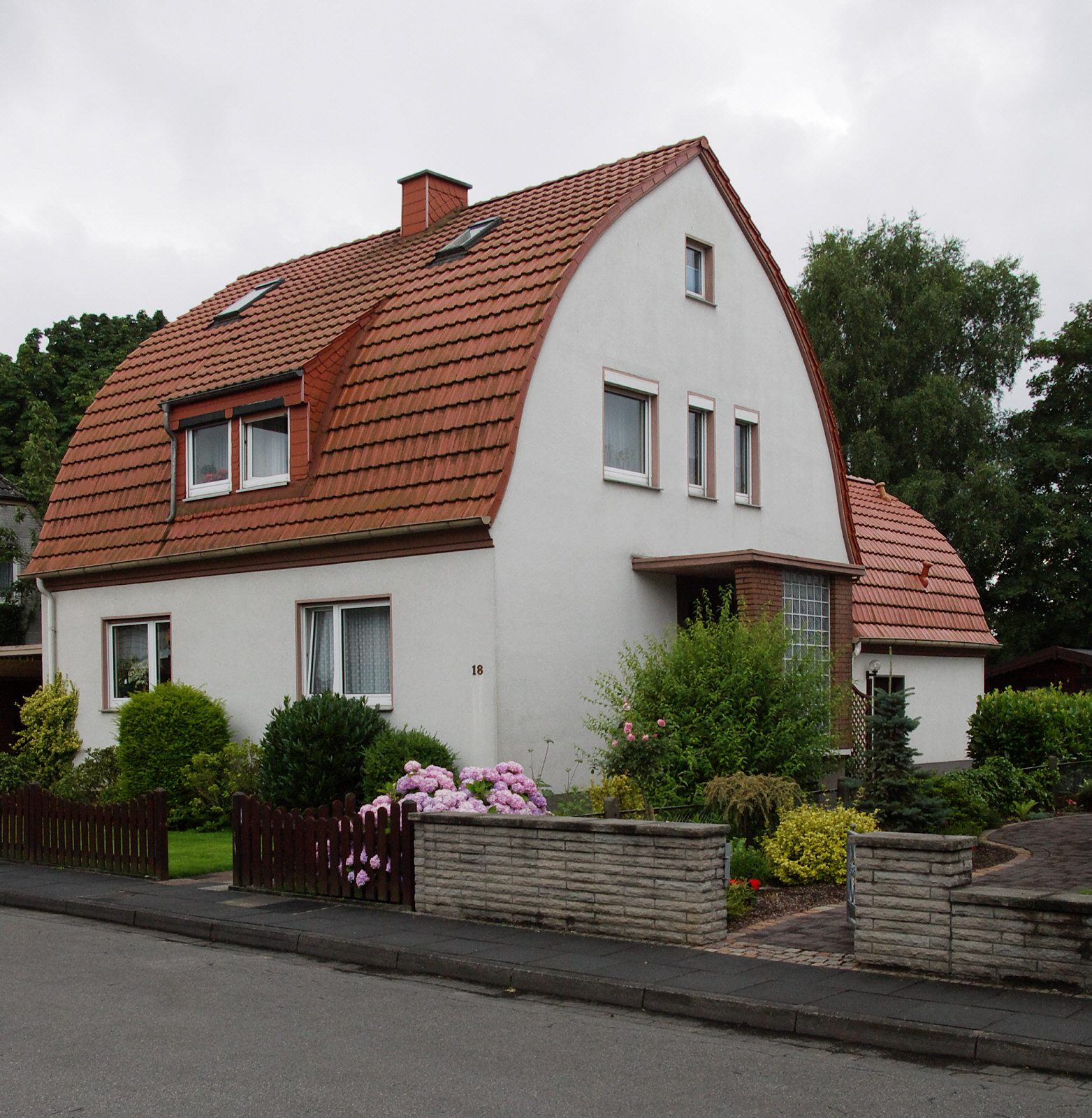 House in town of Hiddenhausen, District of Herford, North Rhine-Westphalia, Germany.